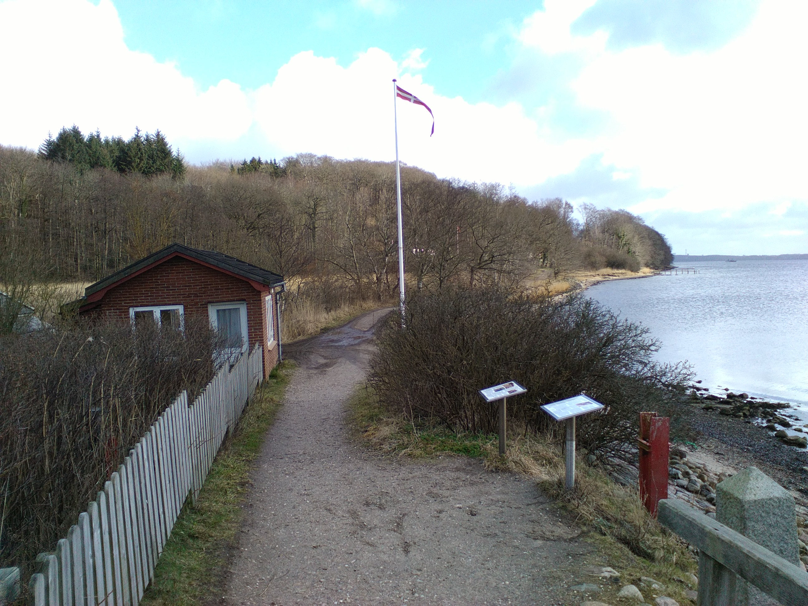 border crossing Germany - Denmark Schusterkate, Firth of Flenburg, Germany